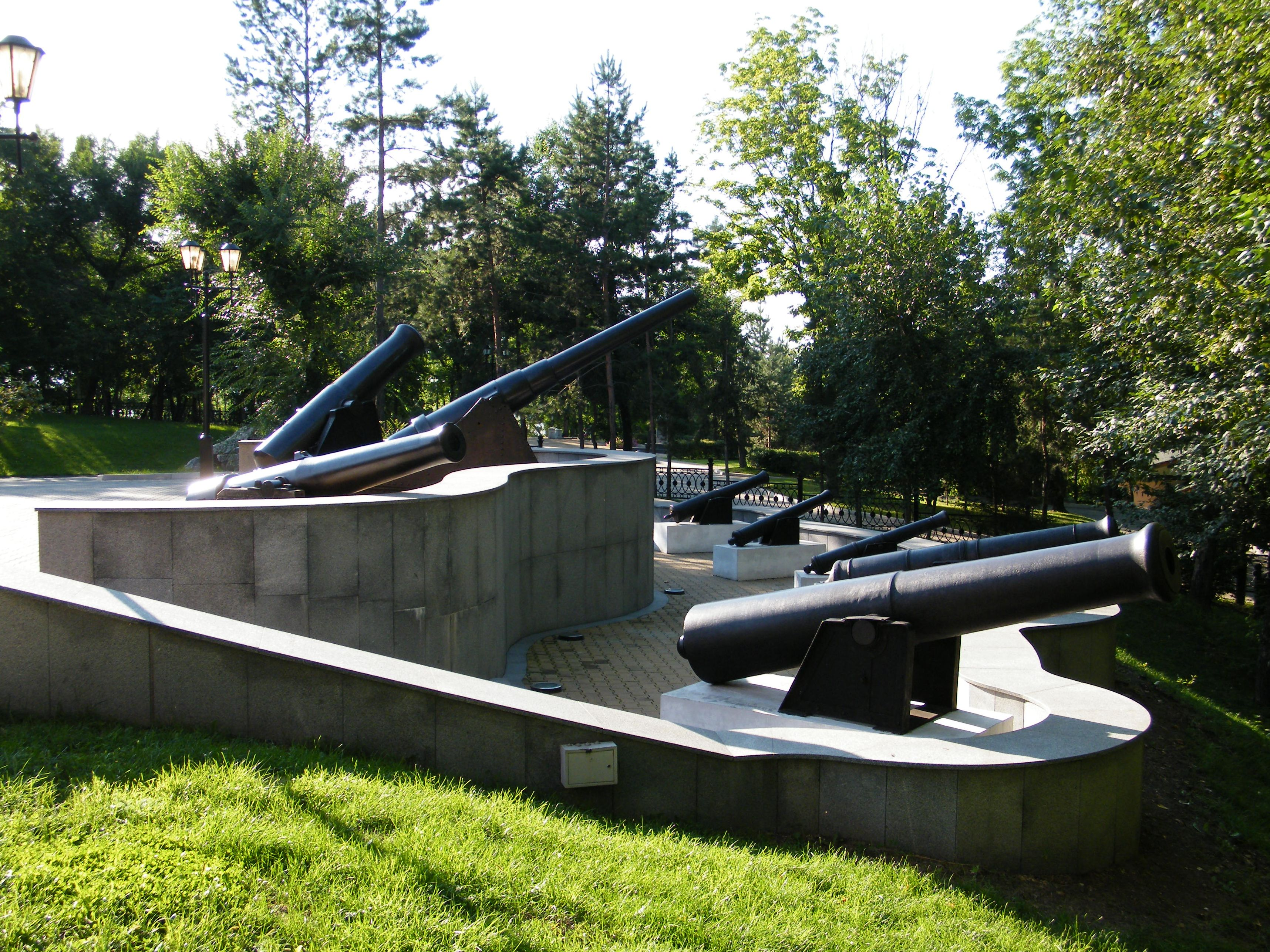 Khabarovsk